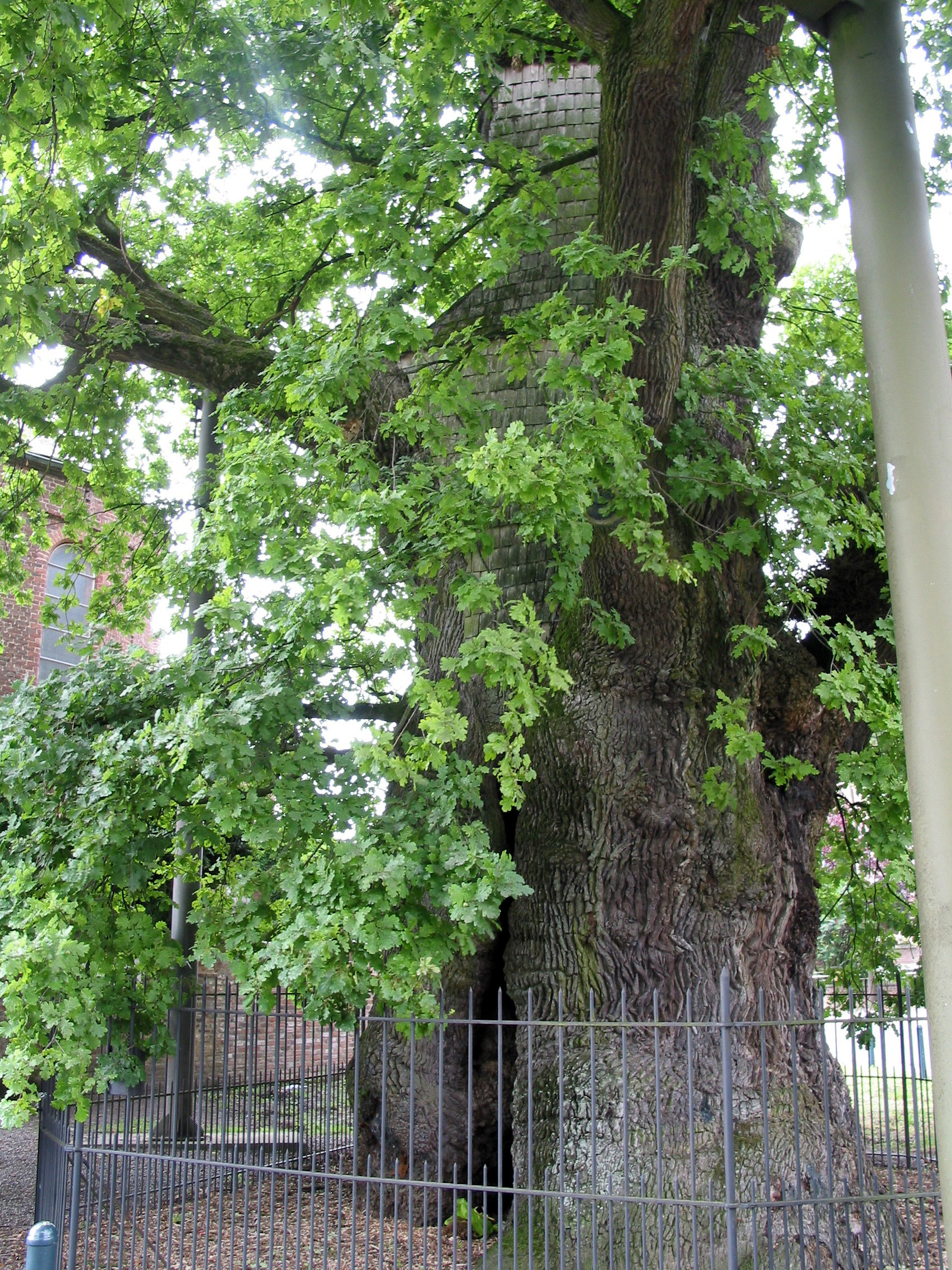 Pedunculate oak.